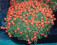 nertera